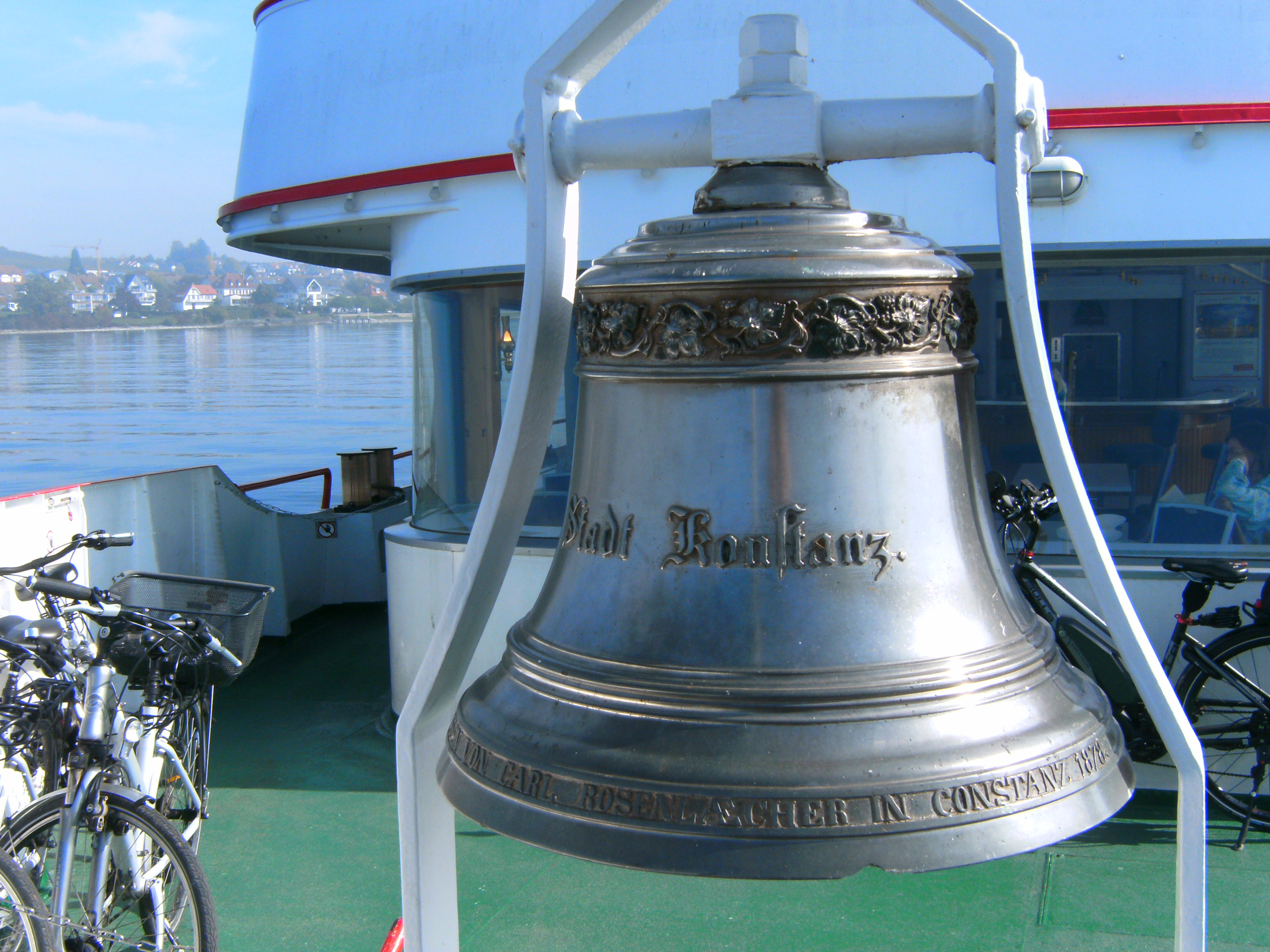 Ships' bell of ship Stadt Konstanz, founded in 1878, now on Schiff Konstanz from 1964.